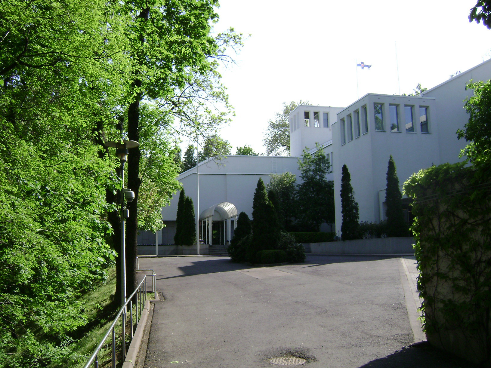 The building of the Finnish Embassy in Kelenhegyi út 16/a, Budapest, Hungary.